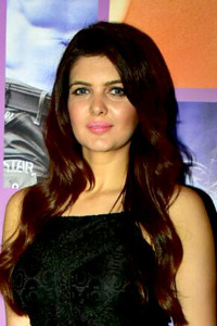 Ihana Dhillon graces the special screening of Hate Story IV, Mar 8, 2018